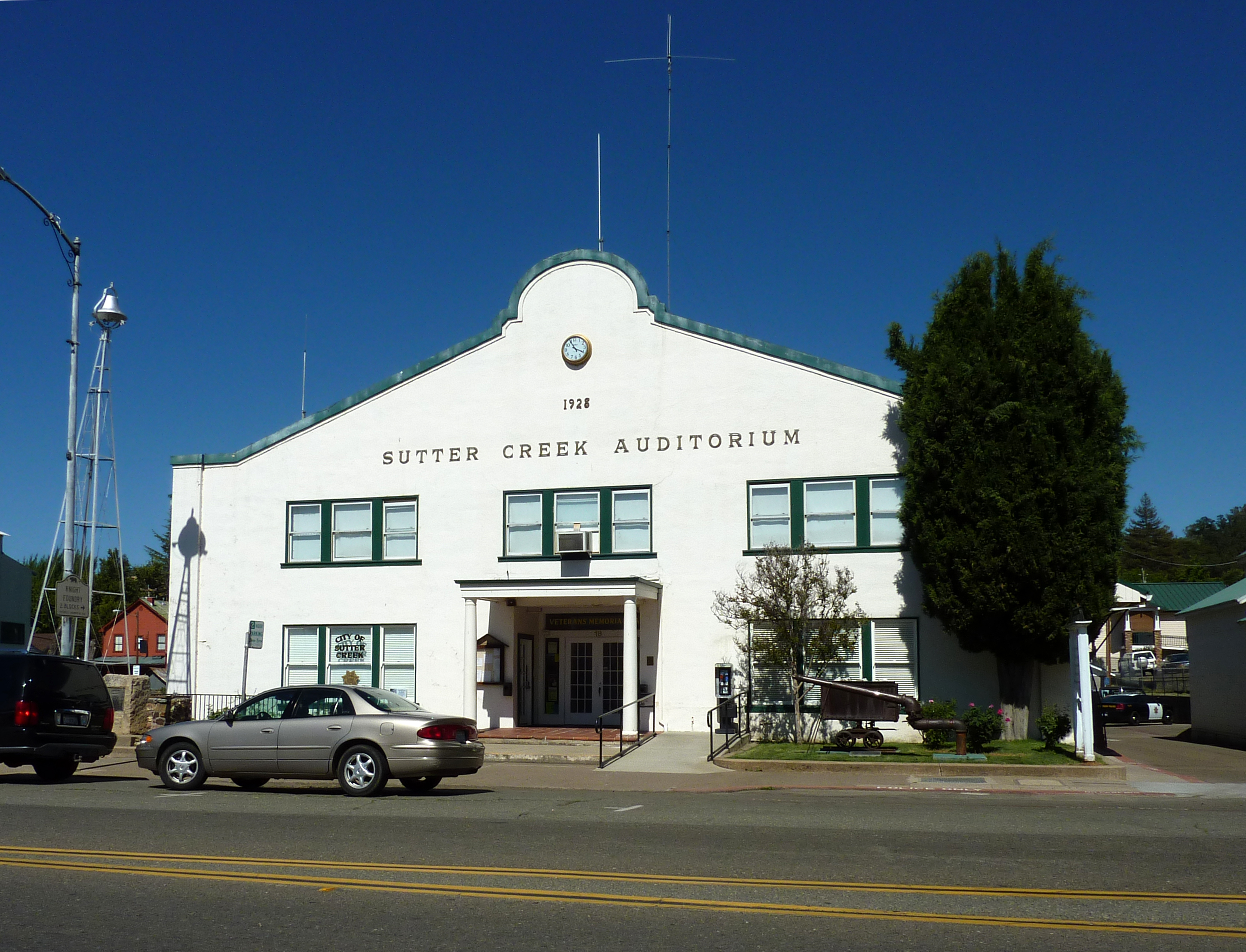 Sutter Creek Auditorium & City Hall, Sutter Creek, California, USA.